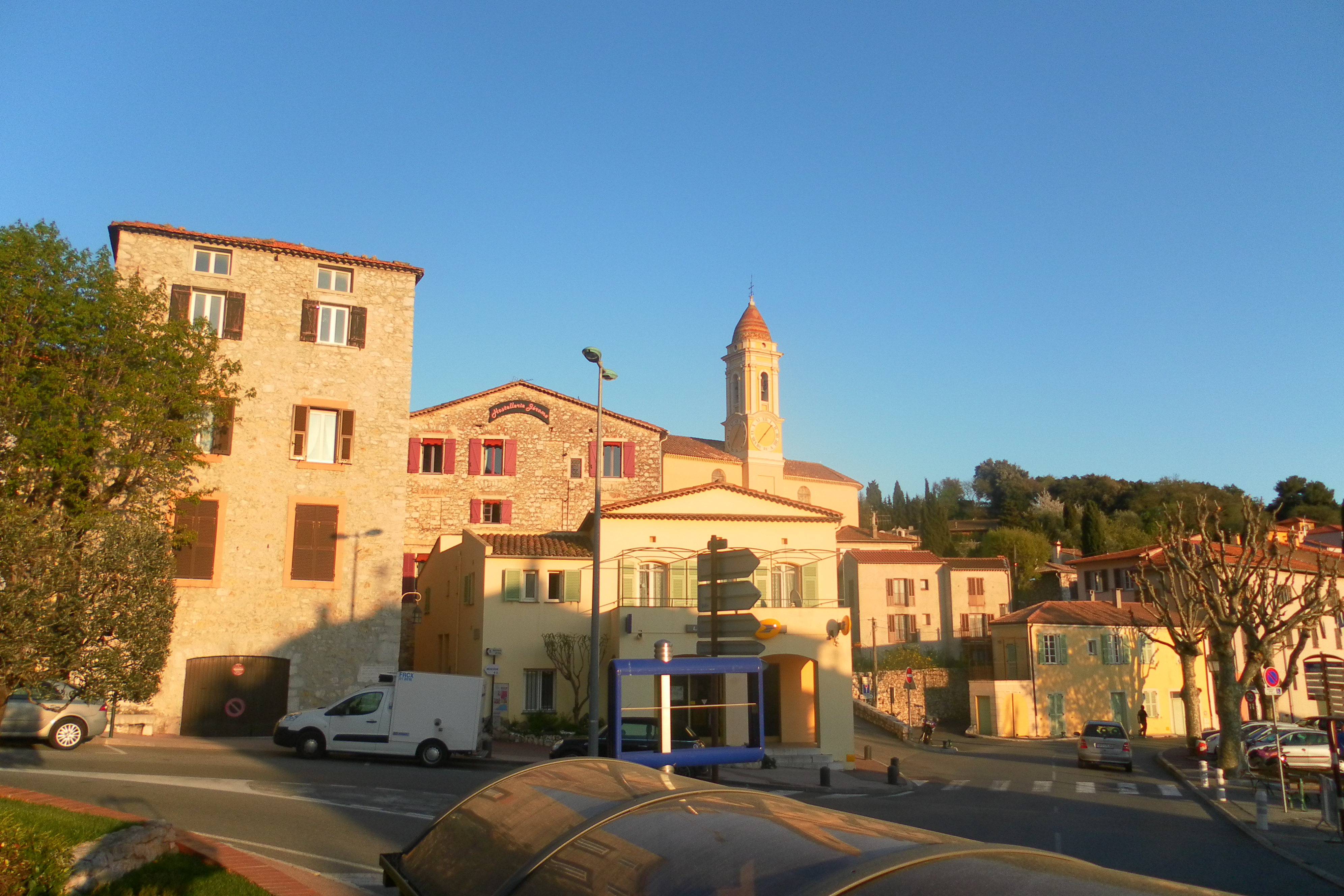 View of La Turbie (France)